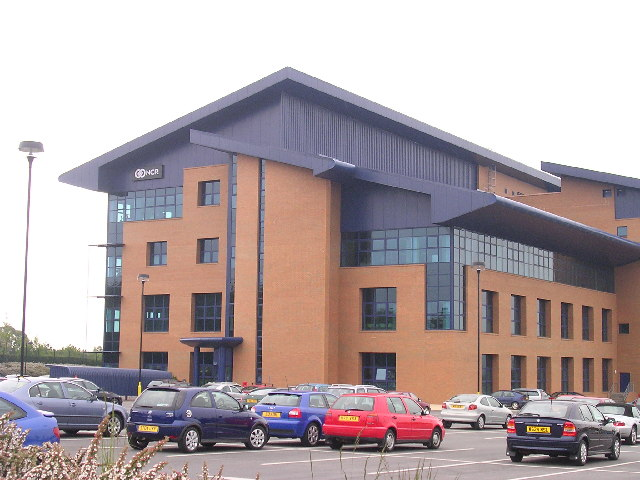 NCR Dundee. NCR is a long established employer in Dundee having first come to the city after the Second World War. These are its new premises built adjacent to the A90(T)